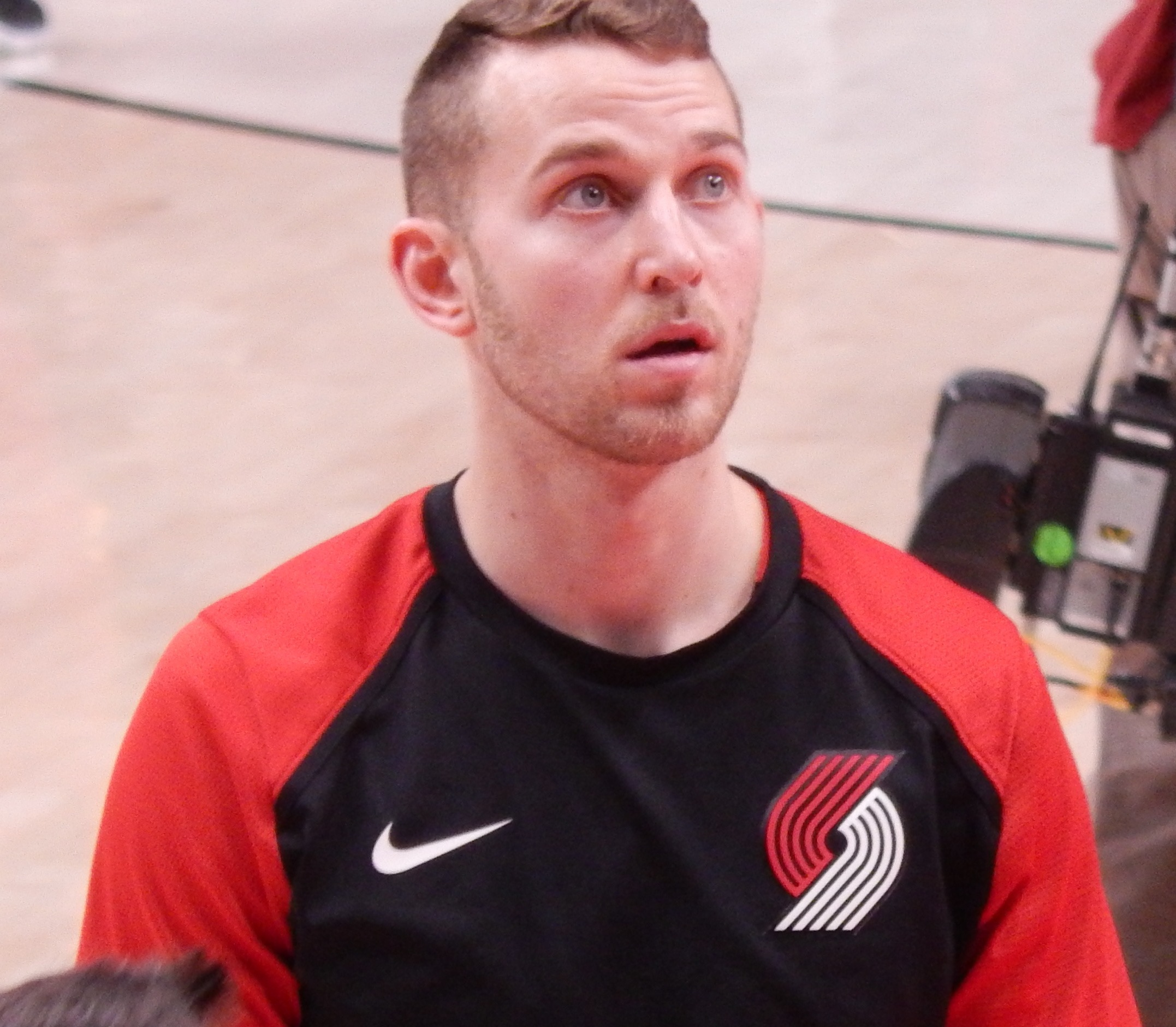 Nik Stauskas #6 of the Portland Trail Blazers against the Cleveland Cavaliers on January 16, 2019 at Moda Center in Portland, Oregon.